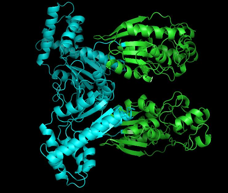 Crystal structure of the H256A mutant of rat testis fructose-6-phosphate,2-kinase/fructose-2,6-bisphosphatase